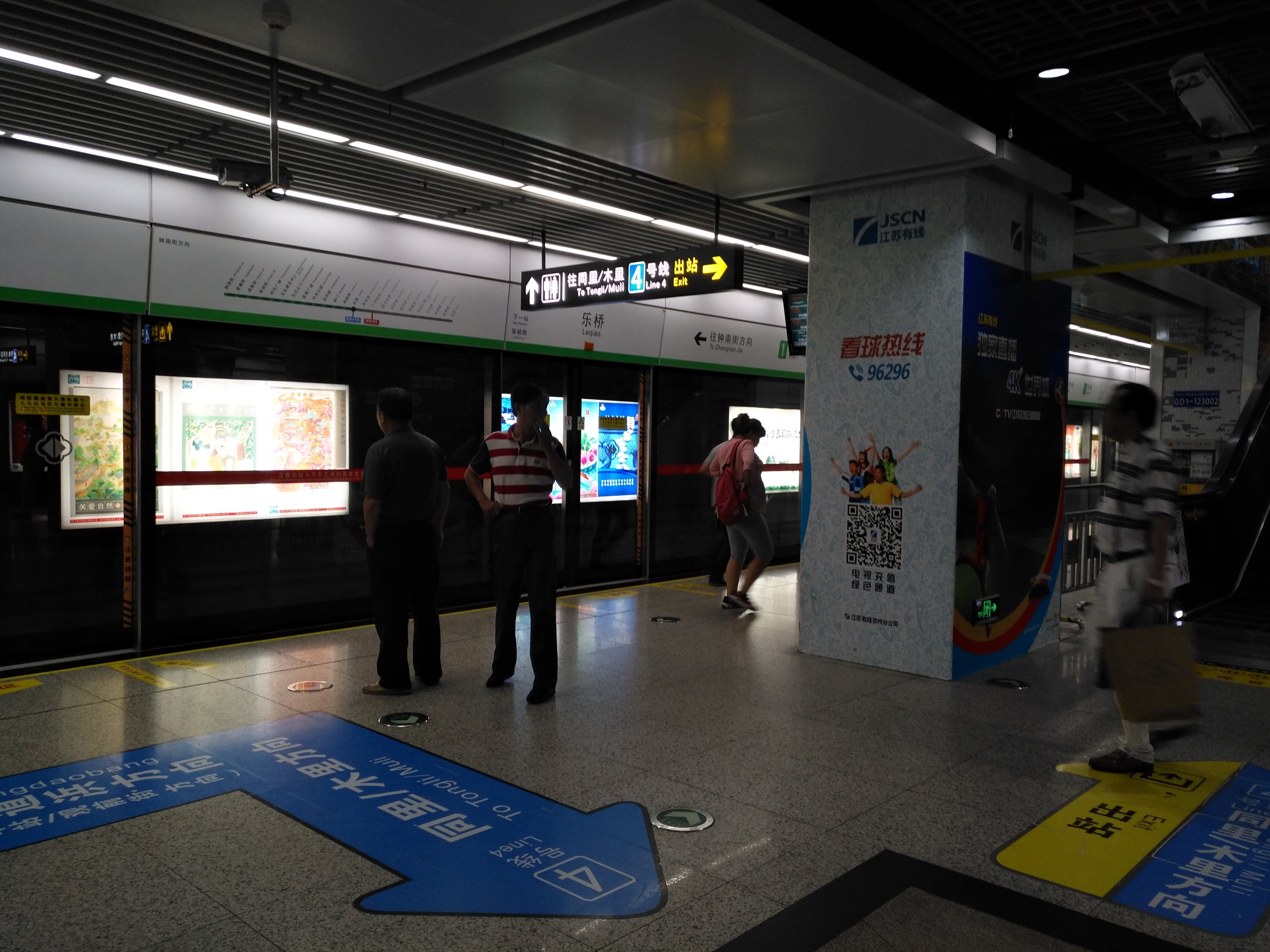 Platform of Leqiao Station of Line 1, Suzhou Rail Transit (towards Zhongnan Jie), with 2018 FIFA World Cup advertisement. 中文（中国大陆）: 苏州轨道交通1号线乐桥站站台（钟南街方向）